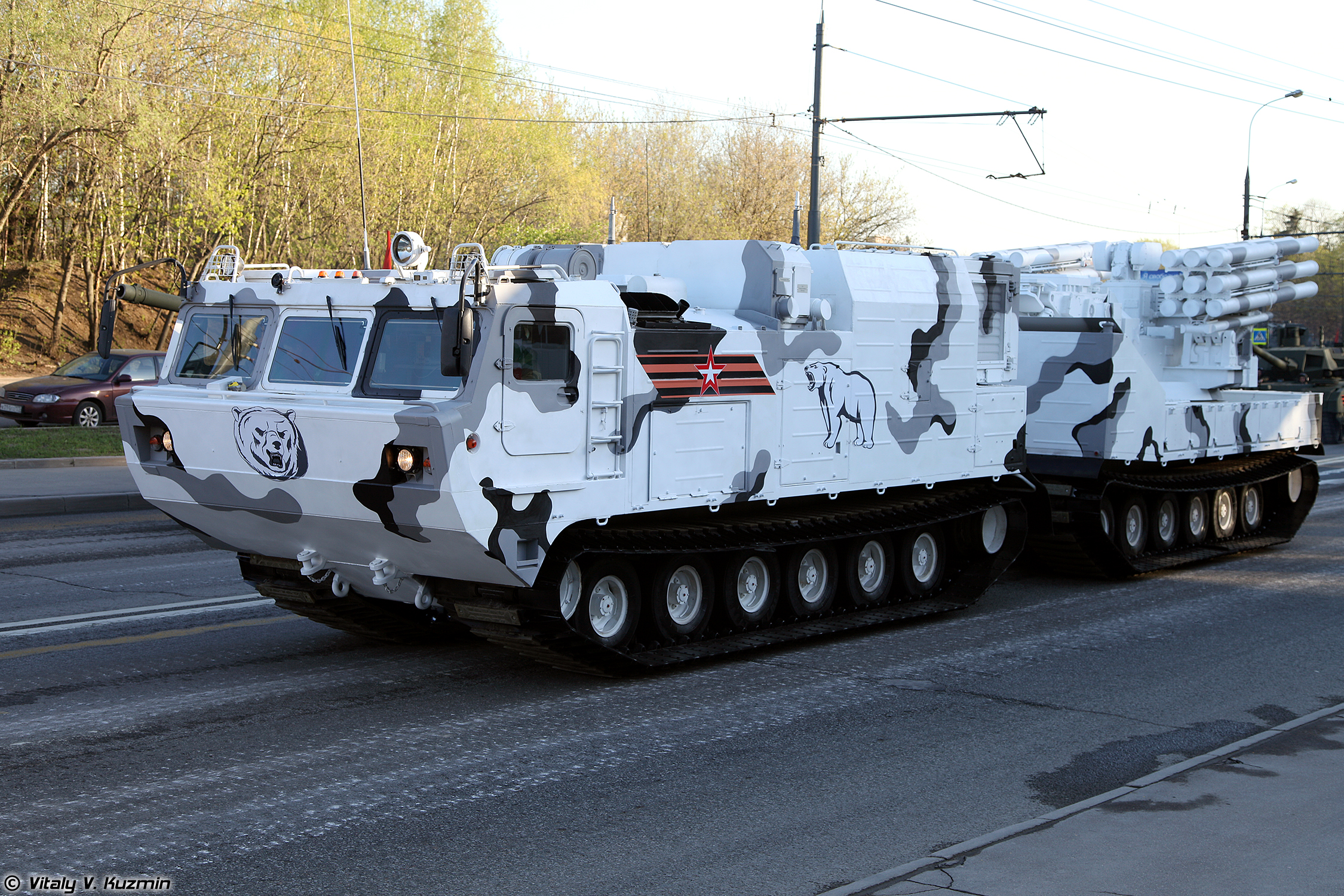 Pantsir-SA air defence system on DT-30PM transporter chassis - Rehearsal of 2017 Moscow Victory Day Parade